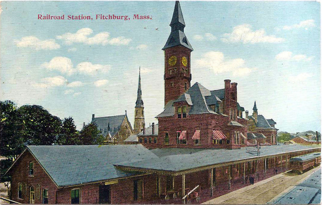 Early divided back postcard of Fitchburg station